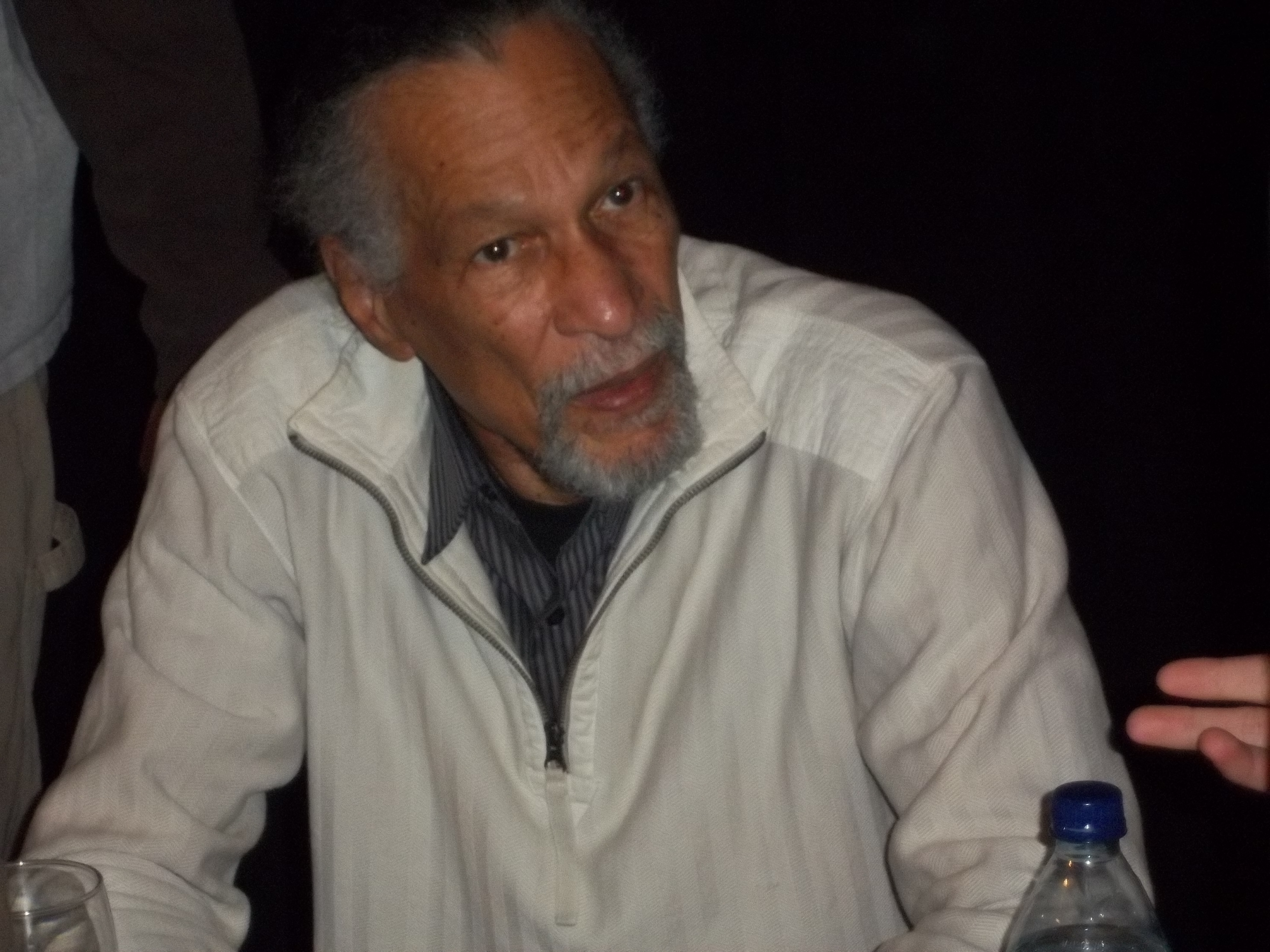 A picture of James West, co-inventor of the electret microphone at the Franklin Institute's Color of Science event.